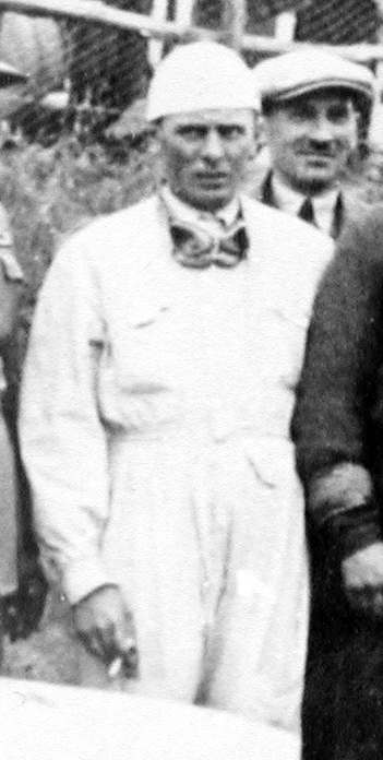 The racecar driver Achille Varzi.